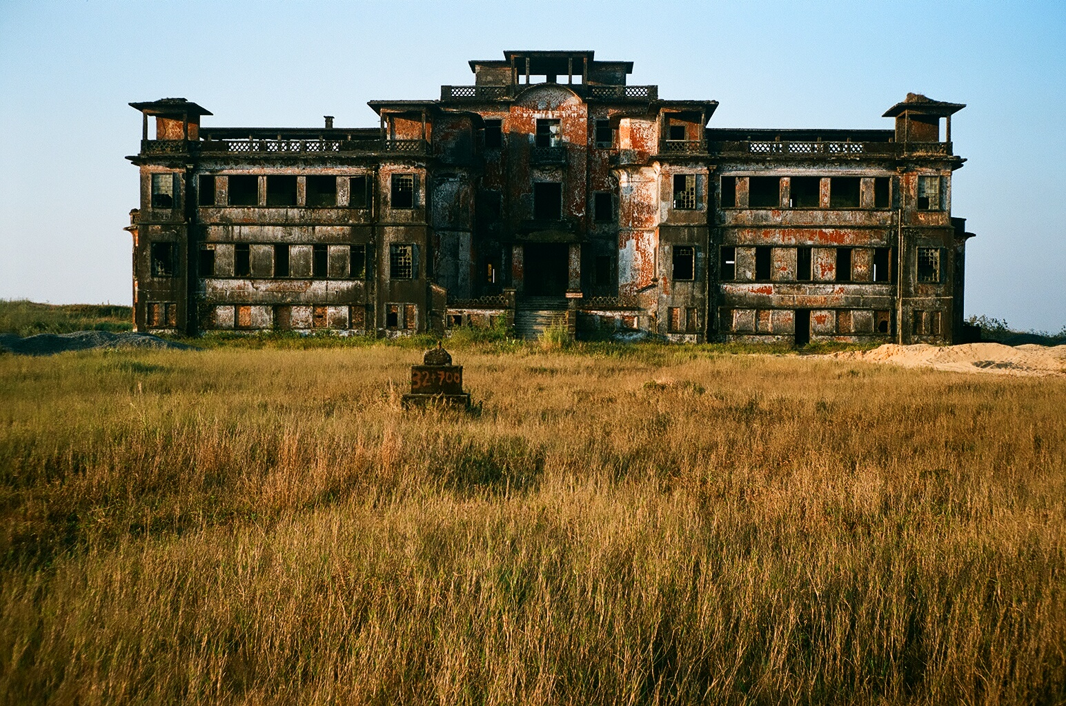 Bokor Palace Hotel, Bokor hill station, Cambodia